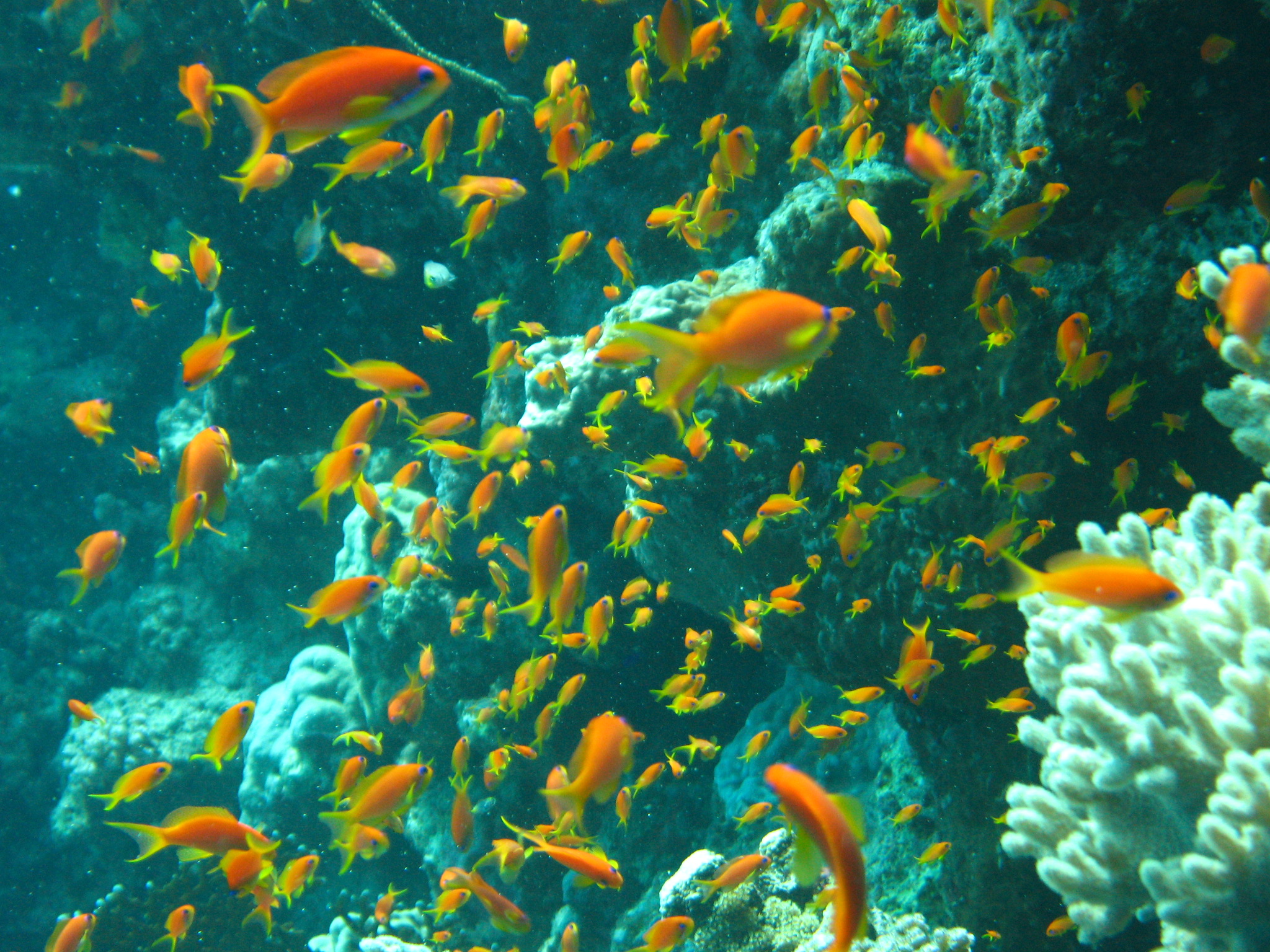 Port Ghalib Egypt